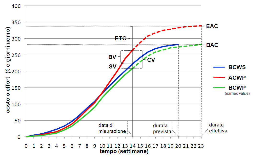 Metriche di progetto (project metrics)